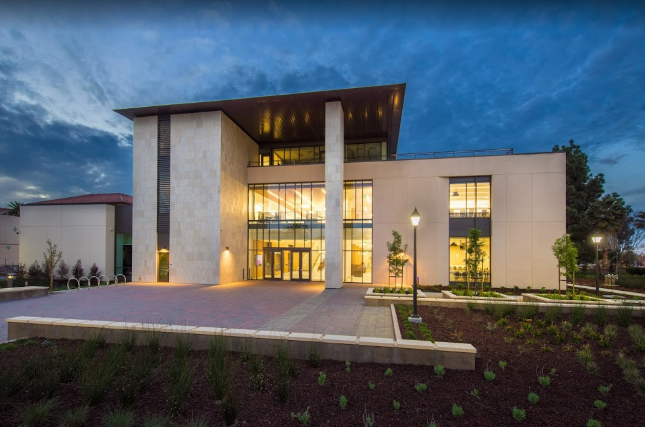 Charney Hall, the new SCU Law Campus